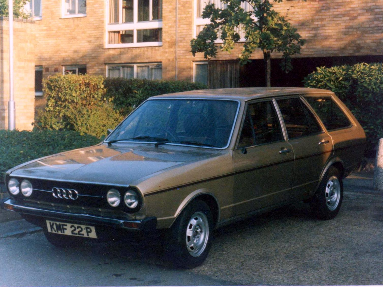 Audi 80 Estate (1975)